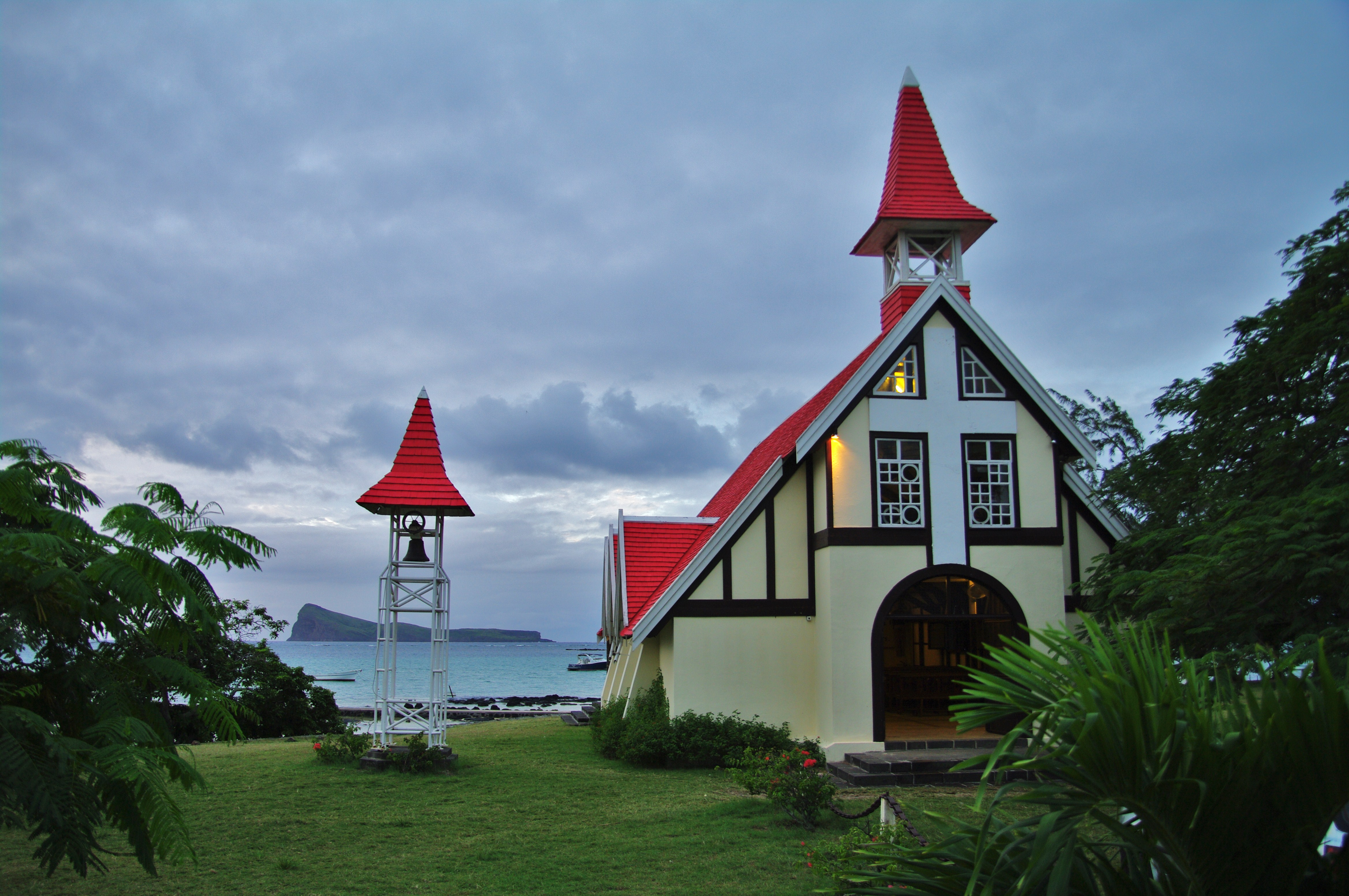 Church Notre Dame Auxiliatrice at Cap Malheureux, Mauritius